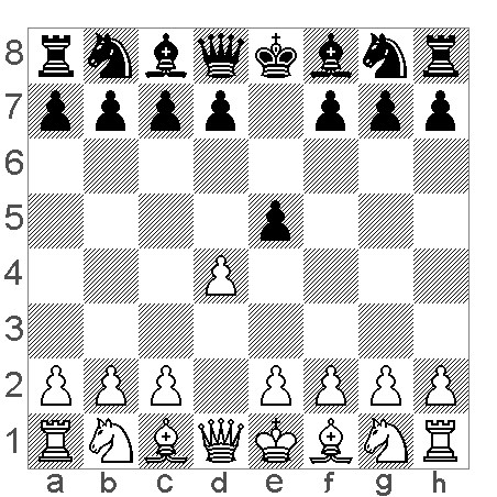 chess diagram Englund gambit Source: CBlight + my processing